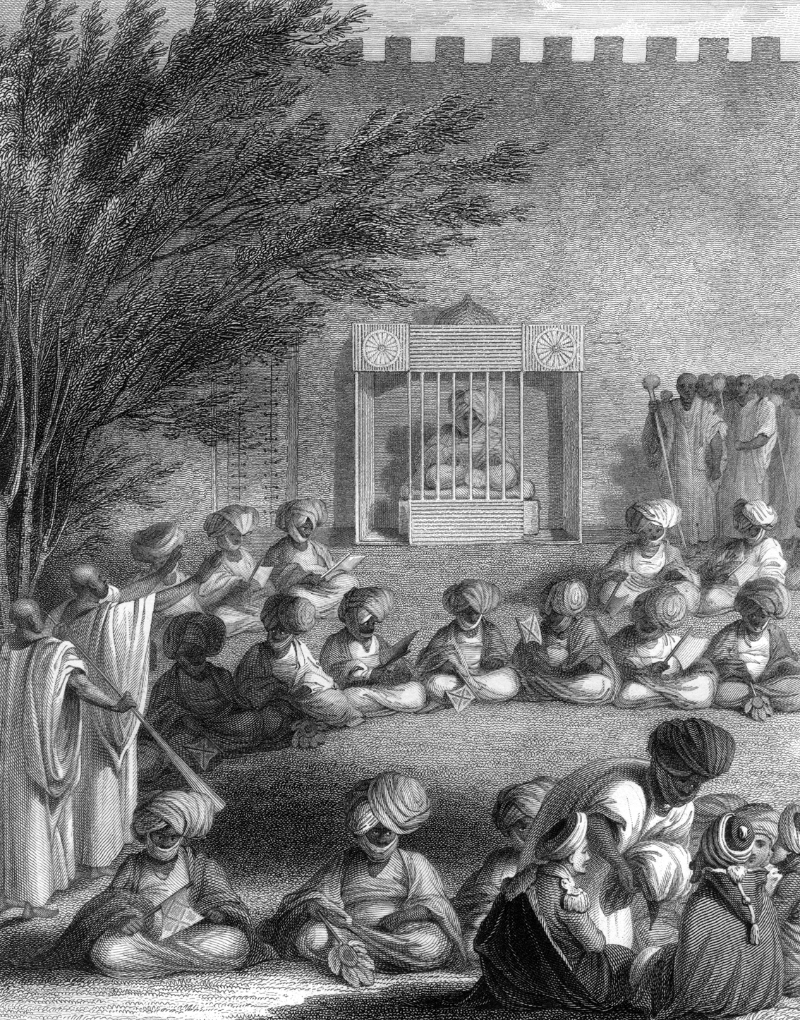 Reception of the Mission. By the Sultan of Bornou. Creator Finden, Edward Francis, 1791-1857 -- Engraver Additional Name(s) Denham, Dixon, 1786-1828 -- Author Specific Material Type Printed text Item/Page/Plate opp. Pg. 79 Source Narrative of travels and discoveries in Northern and Central Africa, in the years 1822, 1823, and 1824. Vol I & II. Location Schomburg Center for Research in Black Culture / Manuscripts, Archives and Rare Books Division Catalog Call Number Sc Rare 916.7-D (Denham, D. Narrative of travels and discoveries in Northern and Central Africa) Digital ID 1245771 Record ID 210234 Digital Item Published 7-18-2005; updated 10-3-2007